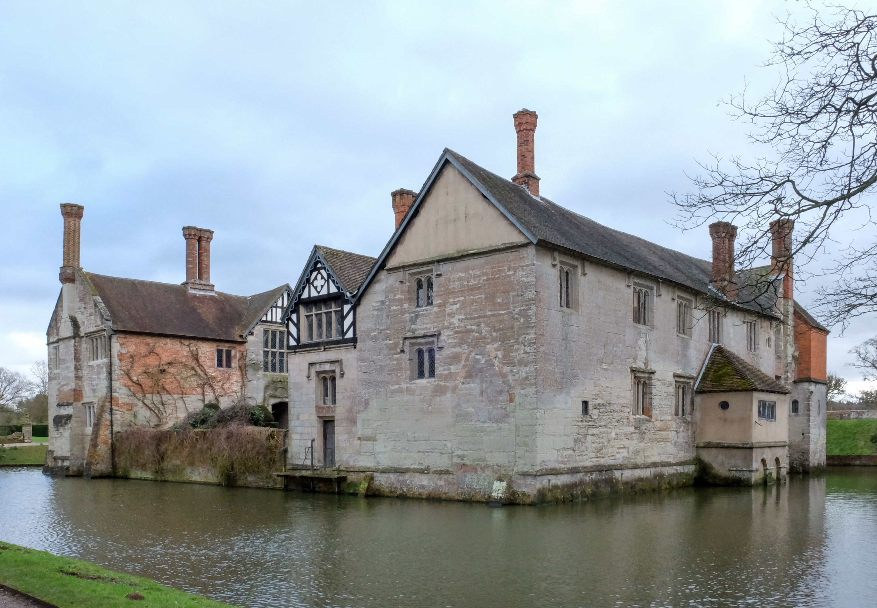 Baddesley Clinton moated manor house from the west.